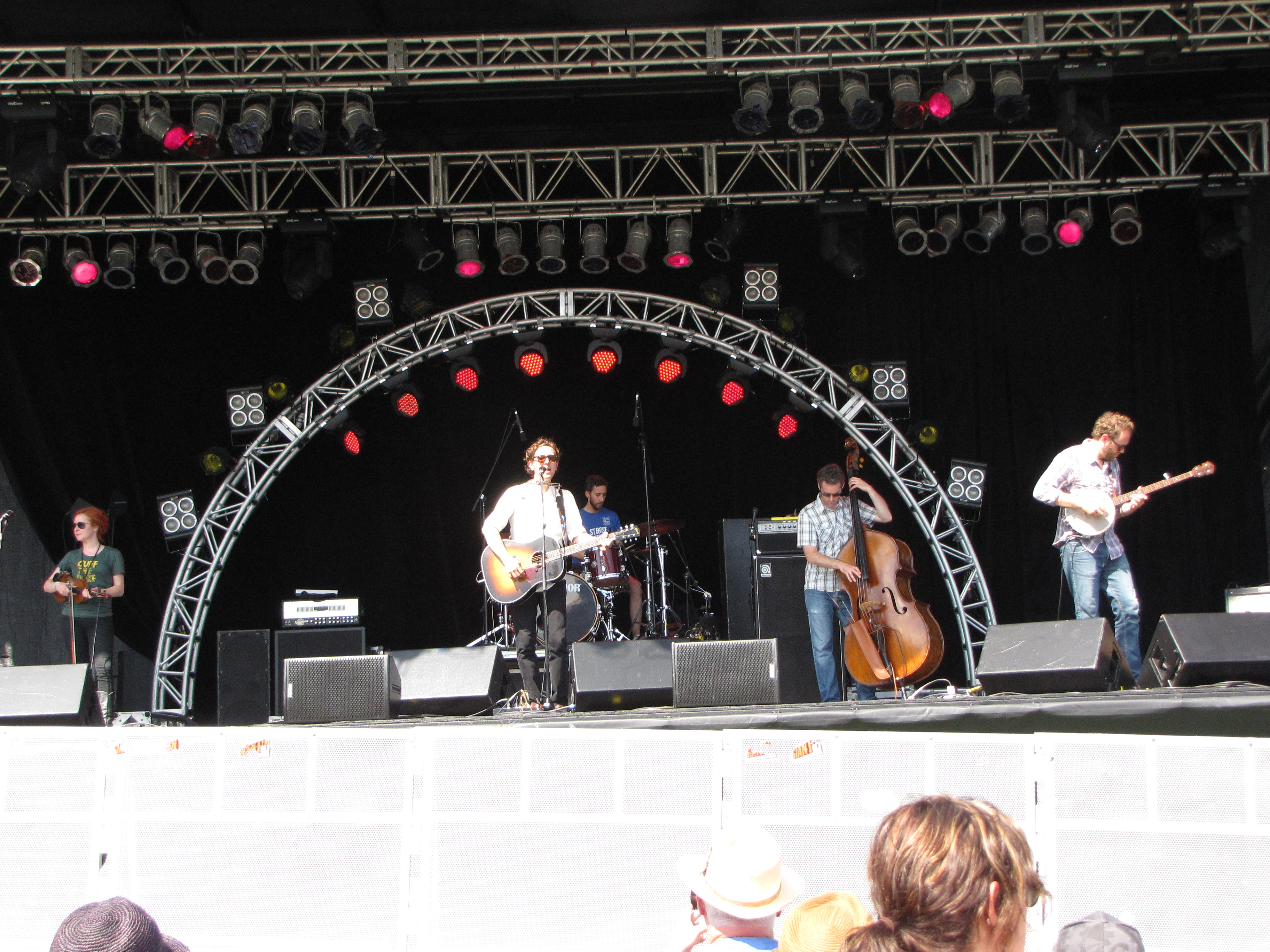 Great Lake Swimmers performing at the Burlington Sound of Music festival. From left: Miranda Mulholland, Tony Dekker Greg Millson, Bret Higgins, Erik Arnesen